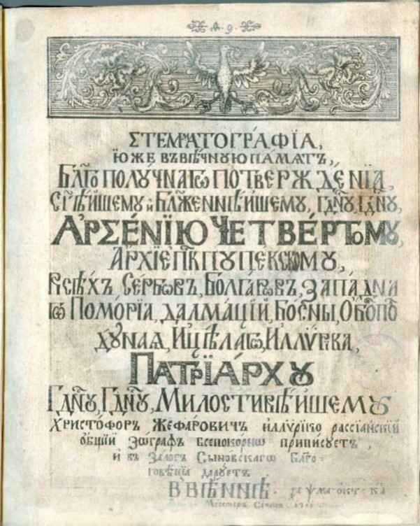 First page of "Stemmatographia" by Hristofor Zhefarovich (1741). Srpski (latinica): Prva strana "Stematografije" od Hristofora Žefarovića (1741).